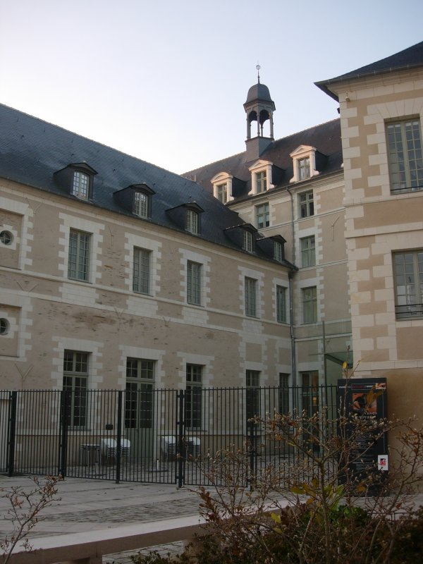 Entrance to the Museum of Fine Arts in Angers, Maine-et-Loire, Pays de la Loire, France.